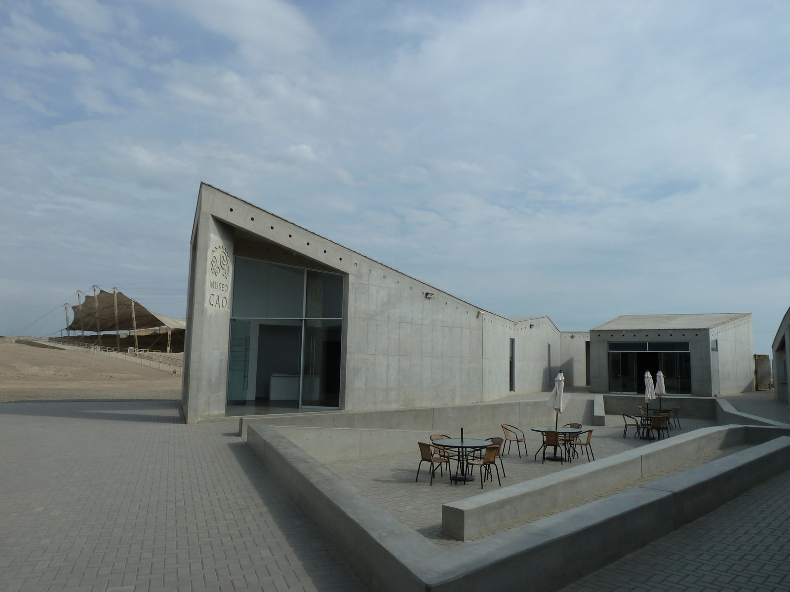 Museo Cao,housing Moche antiquities at El Brujo archaeological complex, an important Moche site. Magdalena del Cao, La Libertad, Peru. Hueca Cao Viejo in the background.